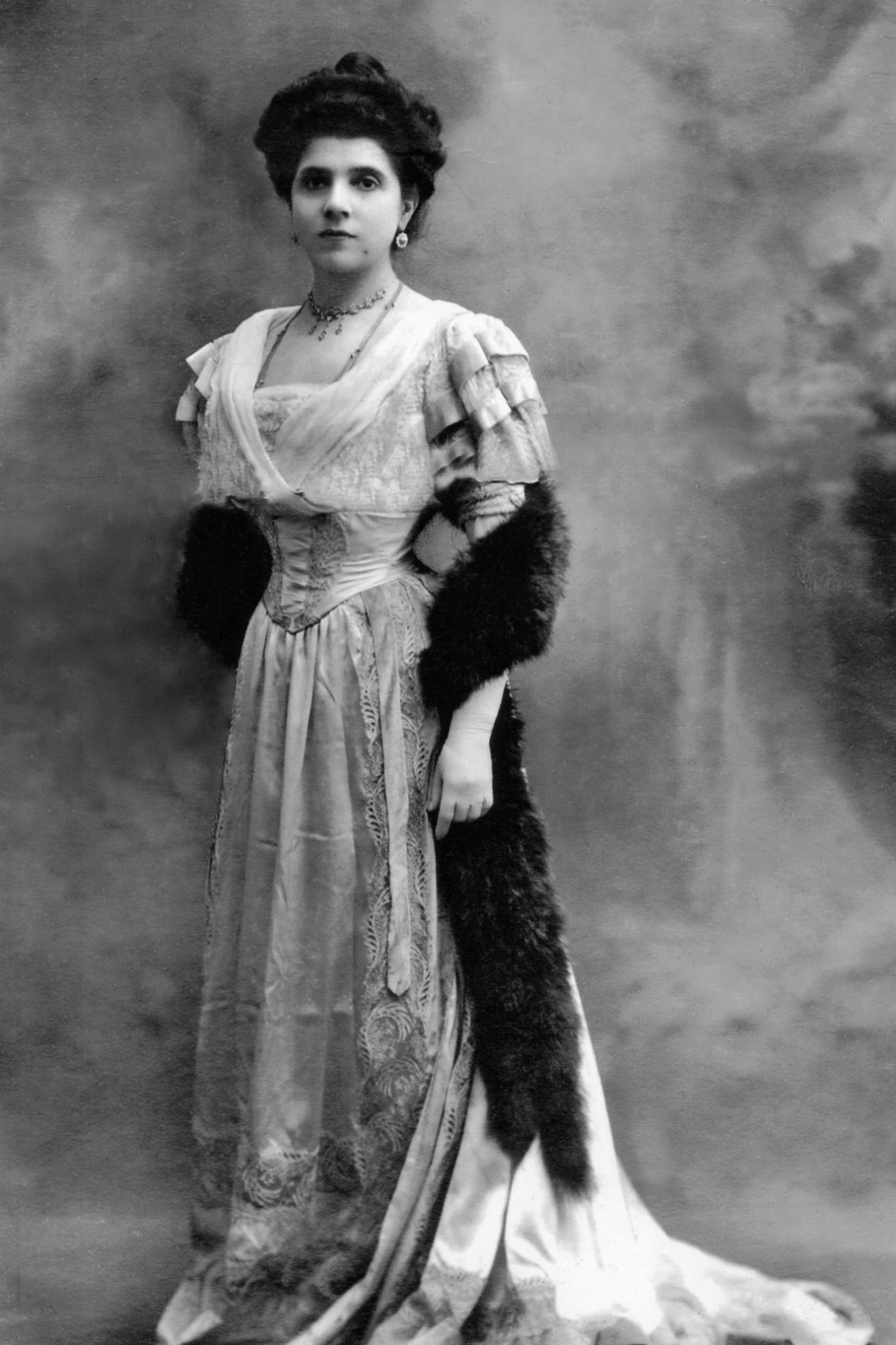 Photo of the italian soprano Dina Barberini (1862 - 1932)